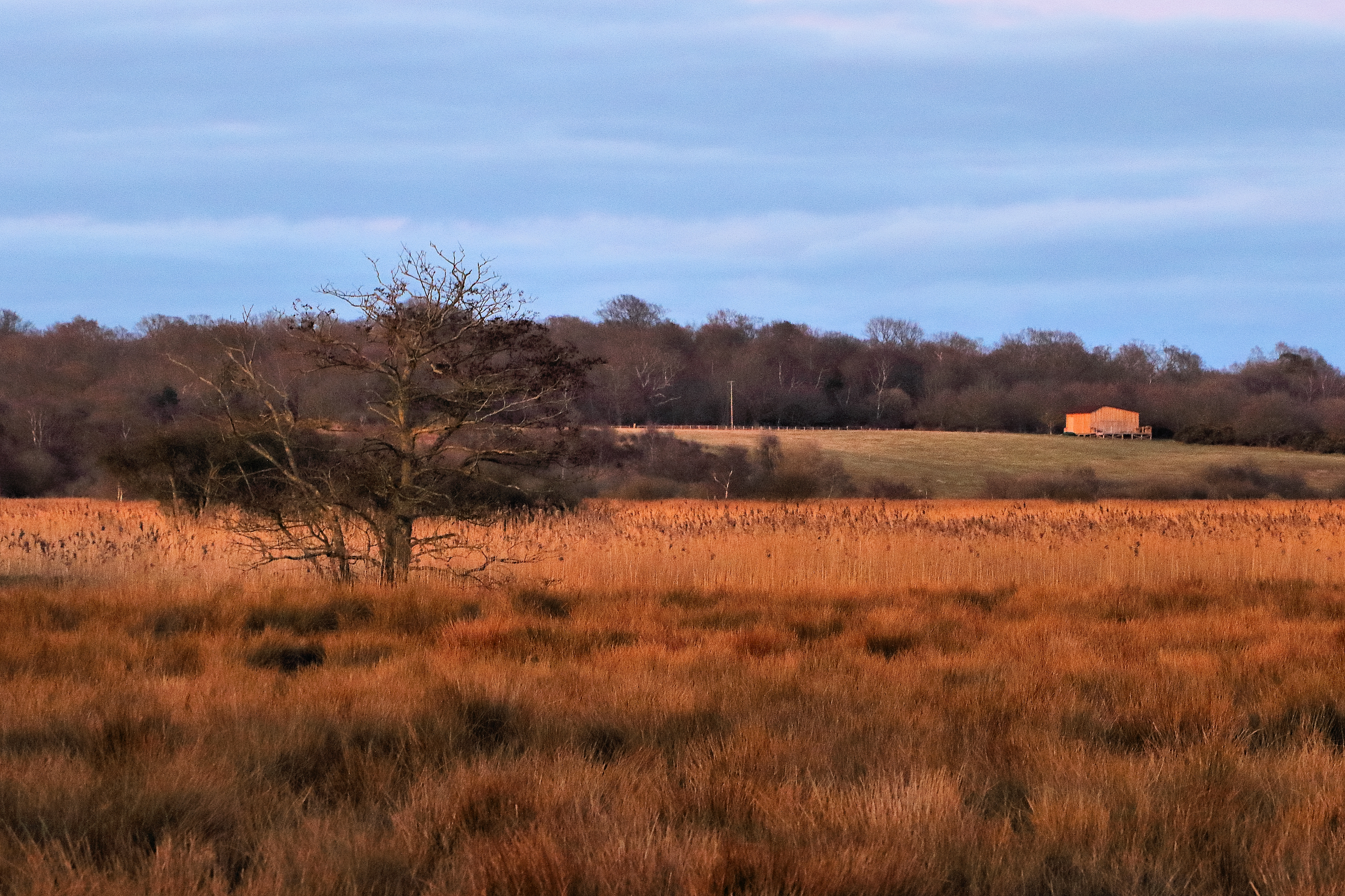 The BBC Springwatch studio at RSPB Minsmere. Ready to be pressed into action towards the end of May this year :-)